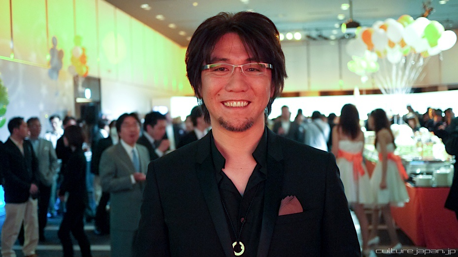 Takanori Aki, Chief Executive Officer of the Good Smile Company, Inc., attended a event of the Good Smile Company 10th Anniversary at the Bellesalle Akihabara in Chiyoda Ward, Tōkyō Metropolis on May 2, 2011.